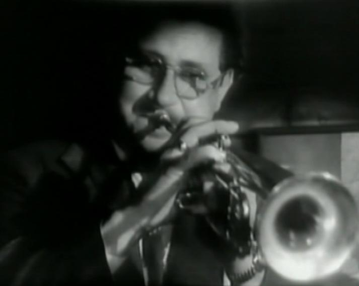 Ziggy Elman in The Fabulous Dorseys (cropped screenshot)